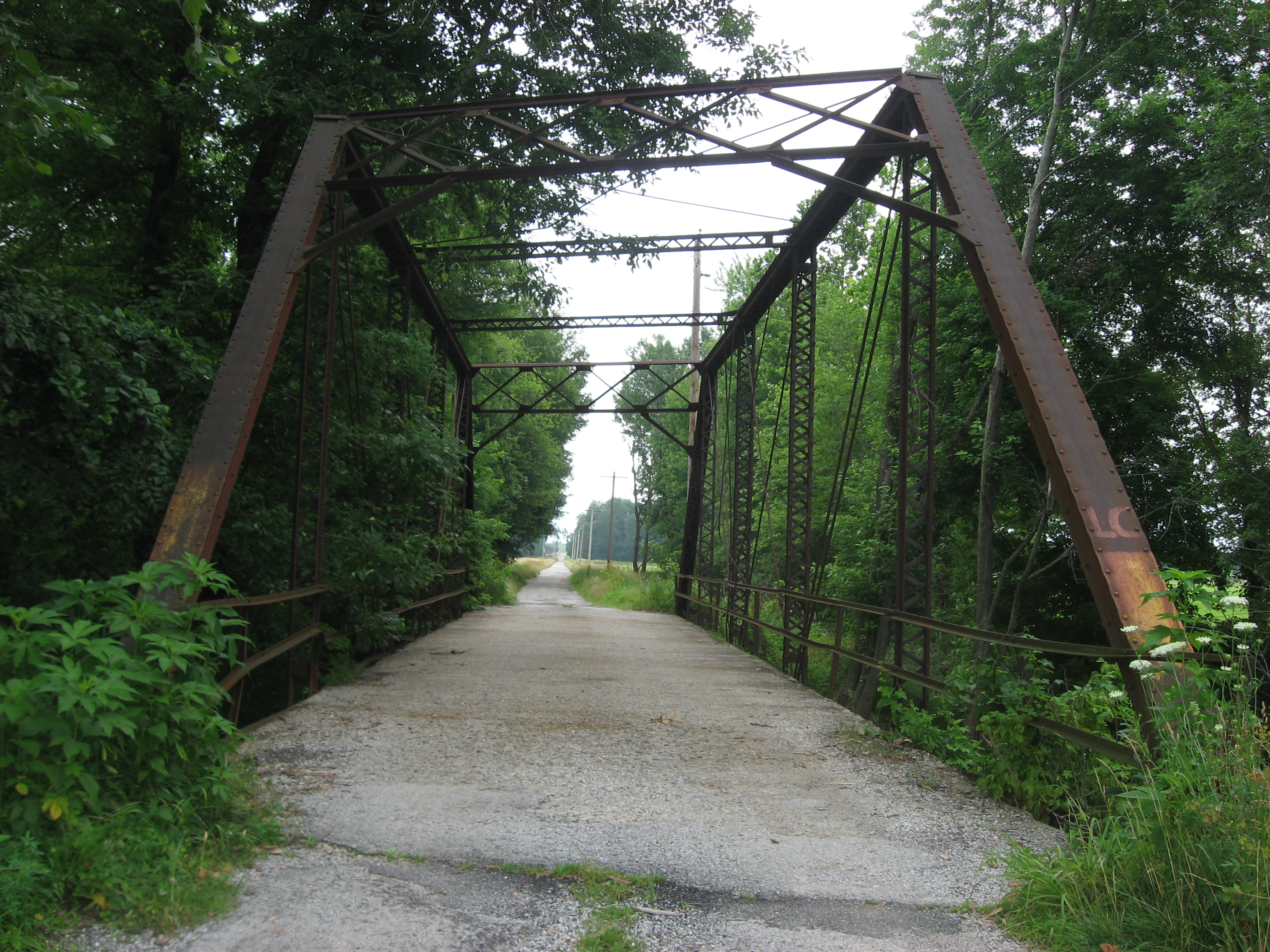 Western portal of the Jeffers Bridge, which carries County Road 200S over Birch Creek southwest of Saline City in Sugar Ridge and Perry Townships of Clay County, Indiana, United States. Built in 1905, it is listed on the National Register of Historic Places.